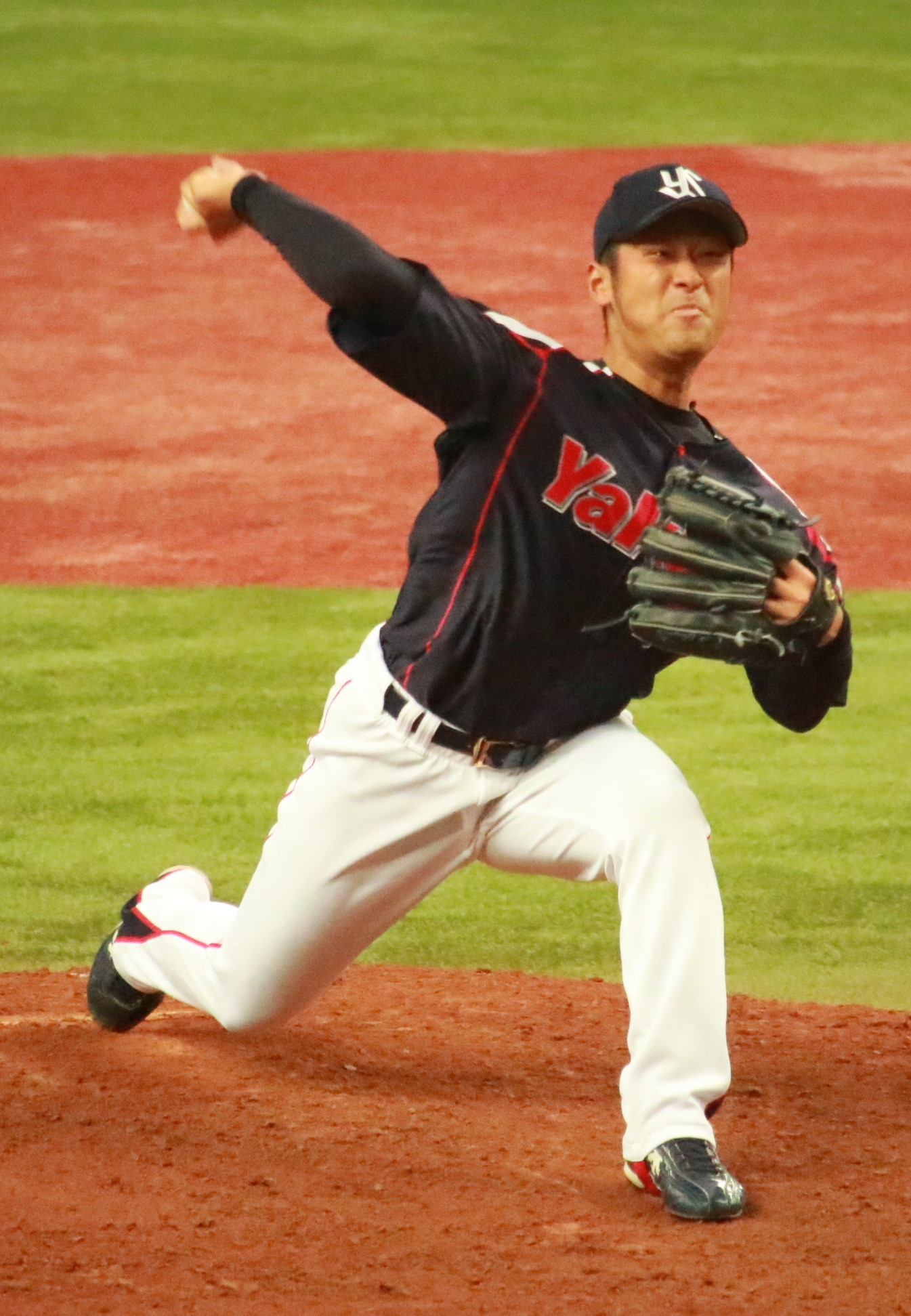 Hiroaki Dohi, pitcher of the Tokyo Yakult Swallows, at Osaka Dome.